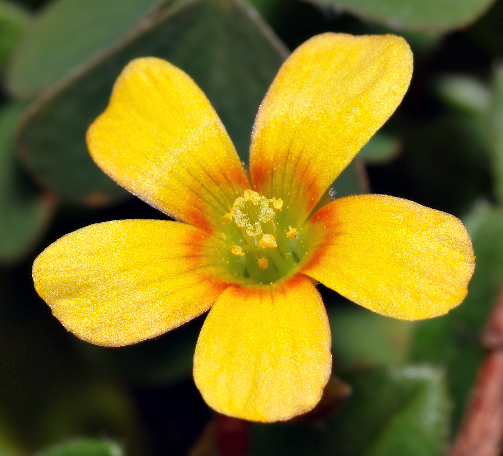 This image shows a Yellow Wood Sorrel (Oxalis corniculata).